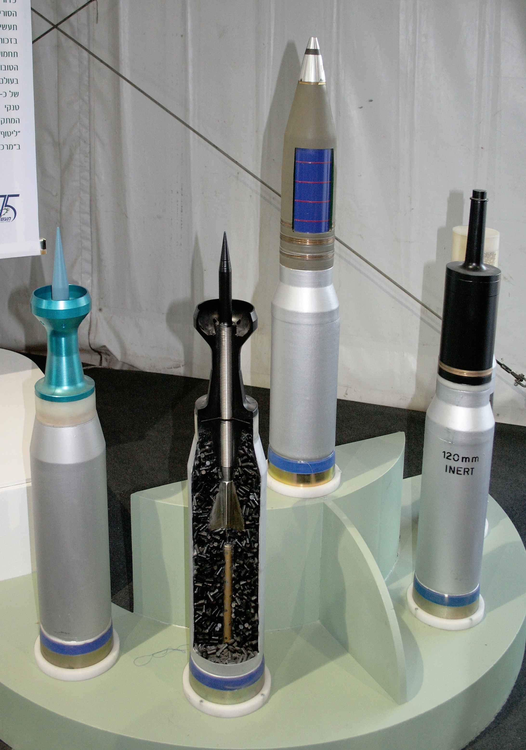 120-mm shells of IMI Left to right: Target practice cone-stabilized discarding-sabot tracered (TPCSDS-T) M324 shell Armour-piercing fin-stabilized discarding sabot (APFSDS) M322 shell Anti-Personnel/Anti-Materiel (APAM) M329 shell High explosive anti-tank (HEAT) M325 shell